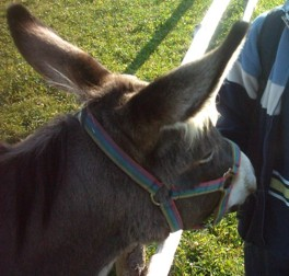 onotherapy